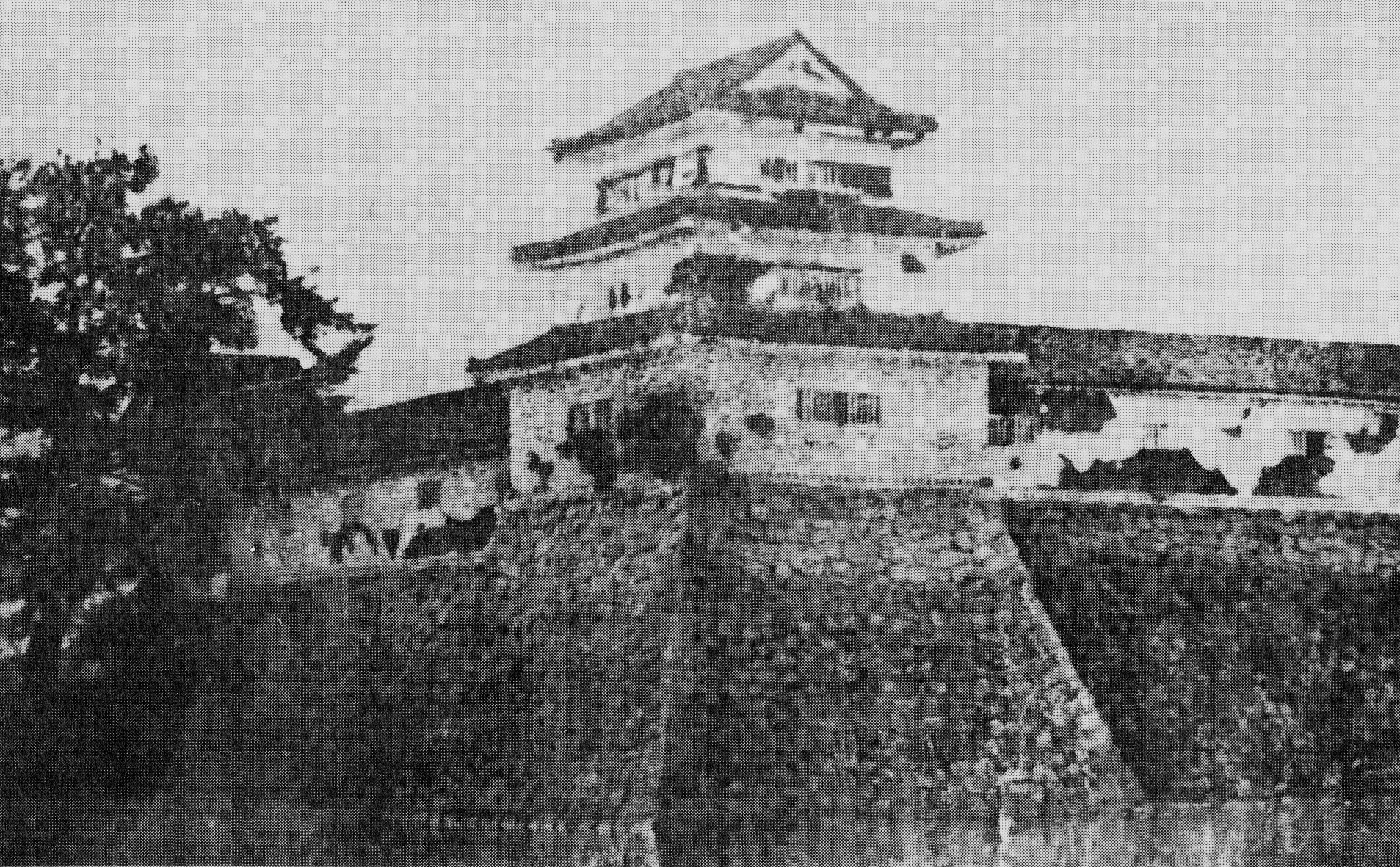 Ushitora tower of Tsu Castle